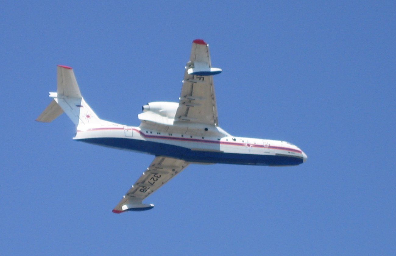 A Beriev Beriev Be-200, operating in Athens, Greece on August 16, 2007, against a wildfire on mount Penteli.